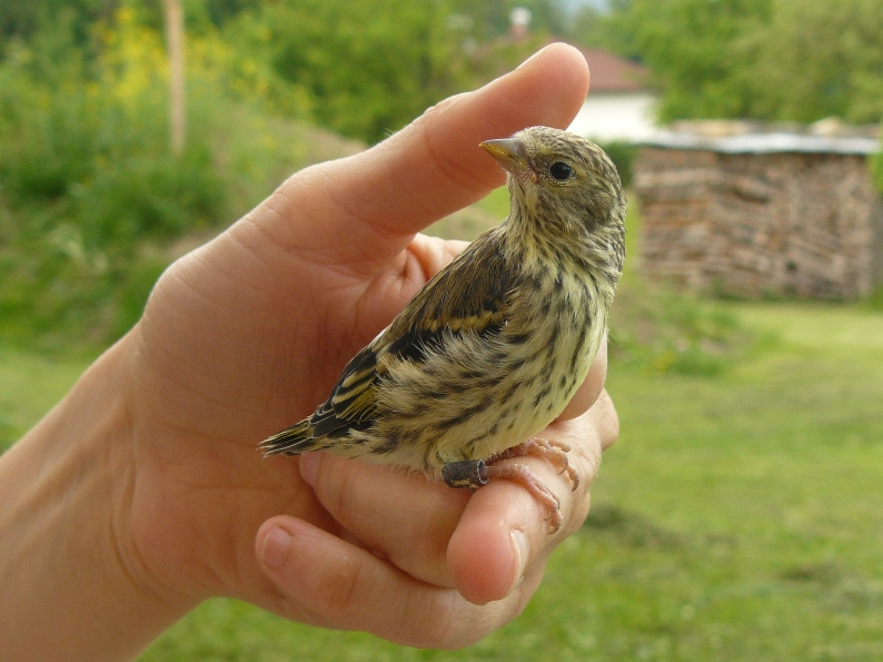 tame young siskin